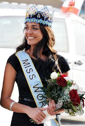 Miss World 2009 Kaiane Aldorino at her homecoming to Gibraltar.